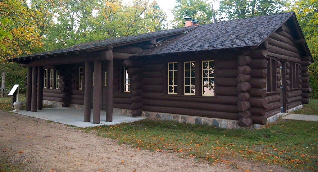 Shelter Building, Lake Bemidji State Park, Minnesota, USA. Viewed from the southeast.